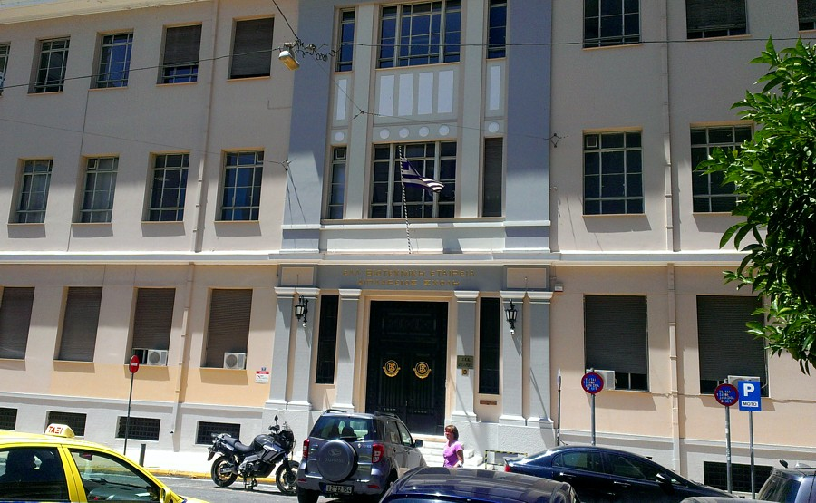 diplareios